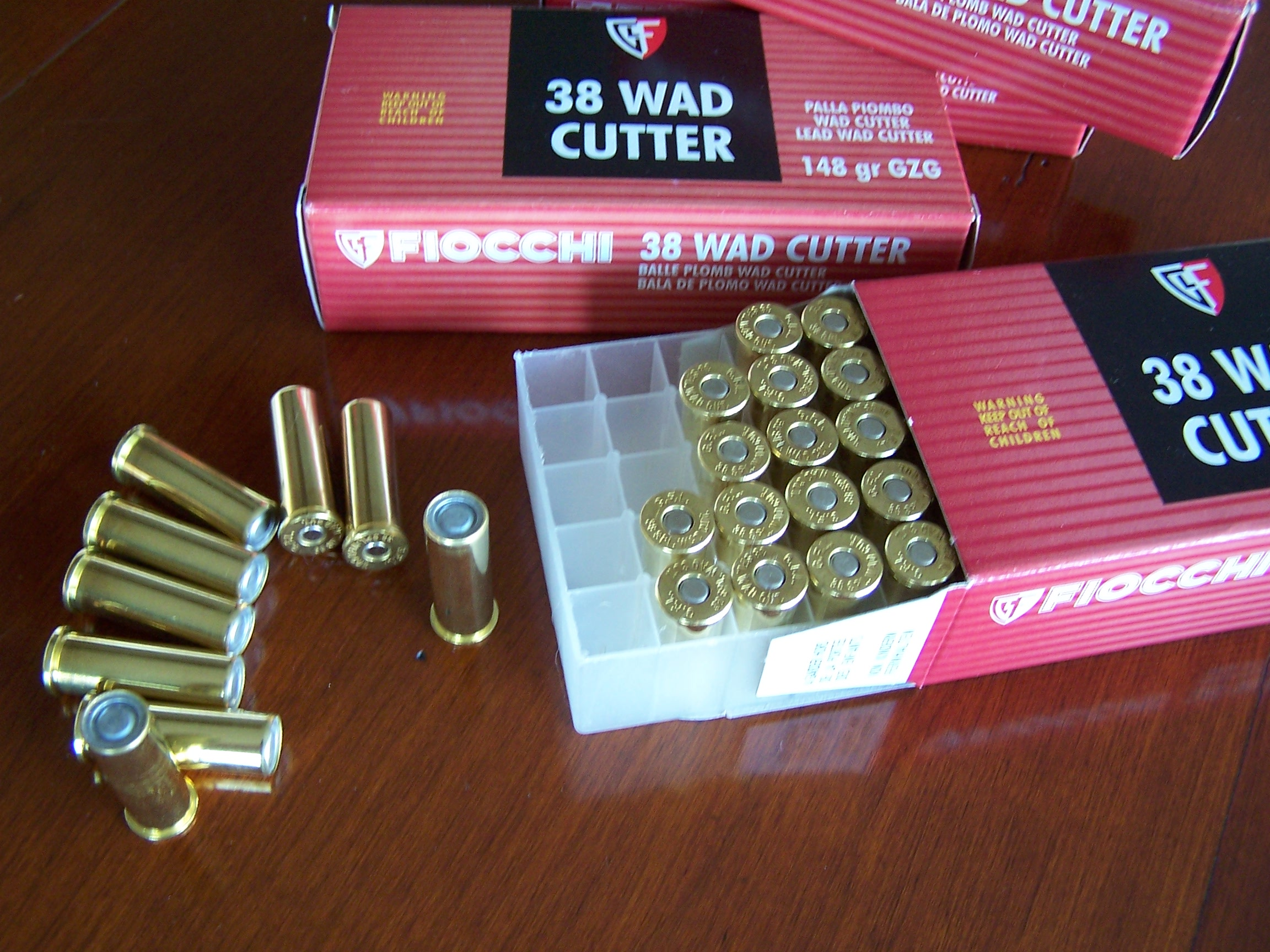 Box of .38 Special Lead Wad-Cutter {LWC) pistol cartridges, manufactured by the Italian Fiocchi company.